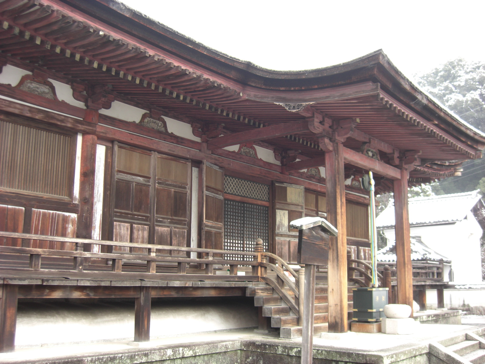 Main Hall of the Chokyu-ji temple in Nara, Japan, a National Treasure